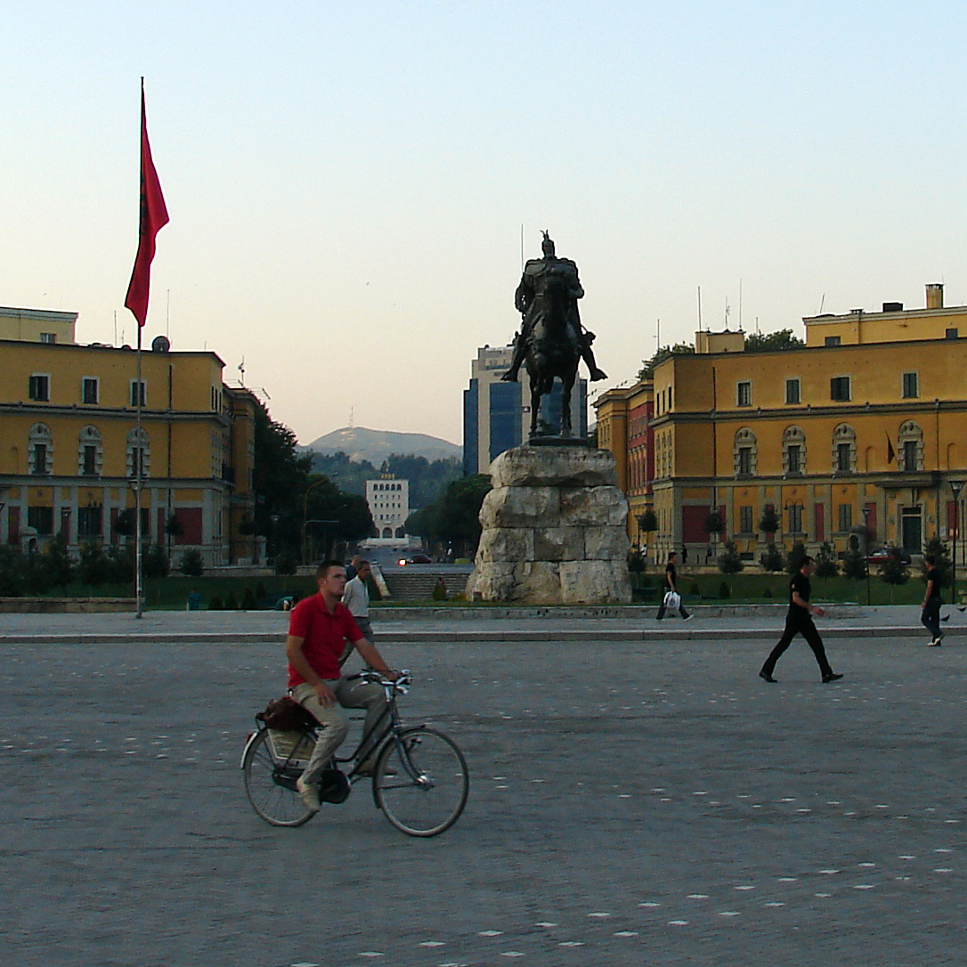 View from Skanderbeg Square to the main building of the university along the main boulevard Dëshmorët e Kombit – Tirana, Albania